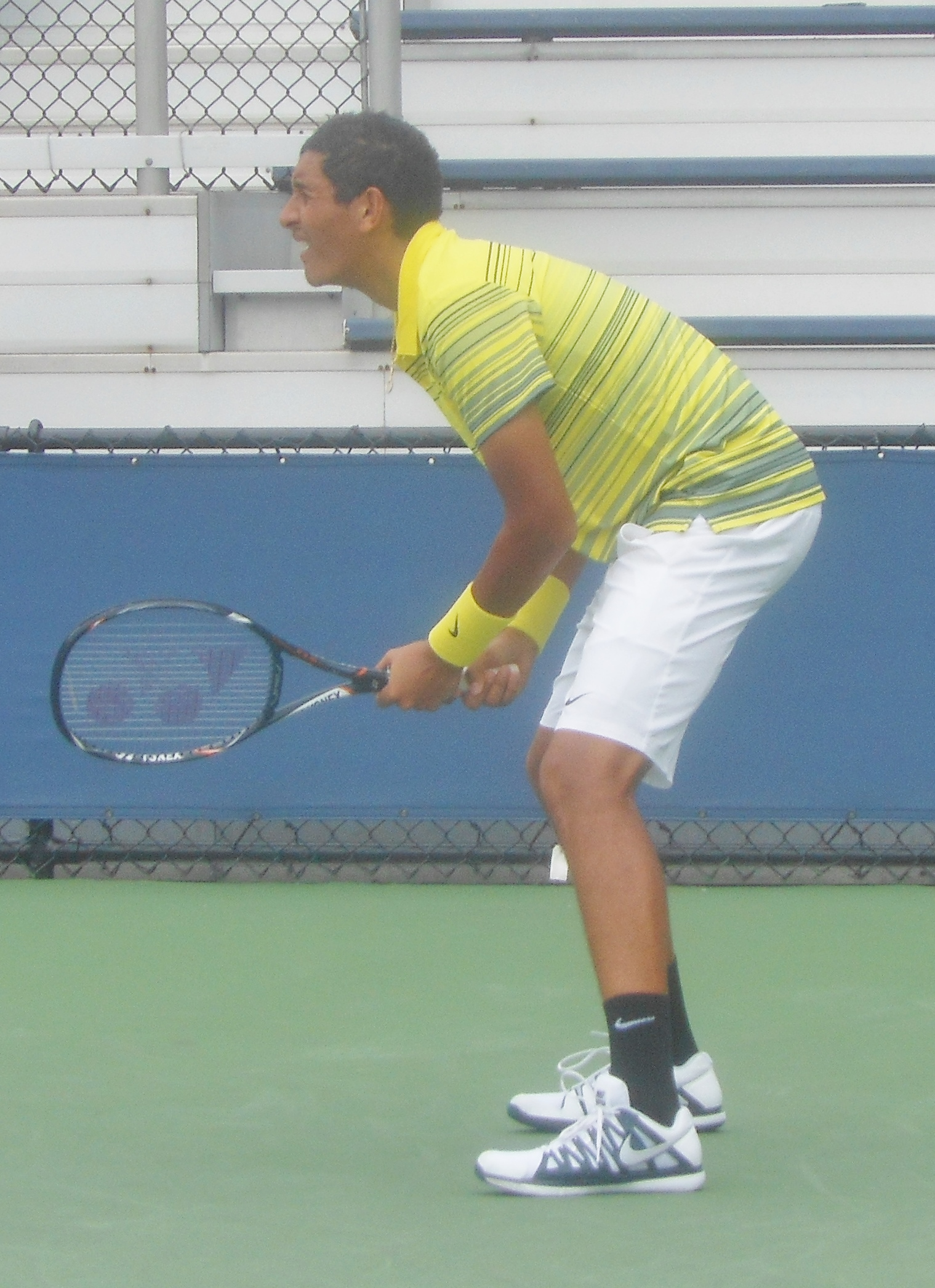 Nick Kyrgios 2013 US Open